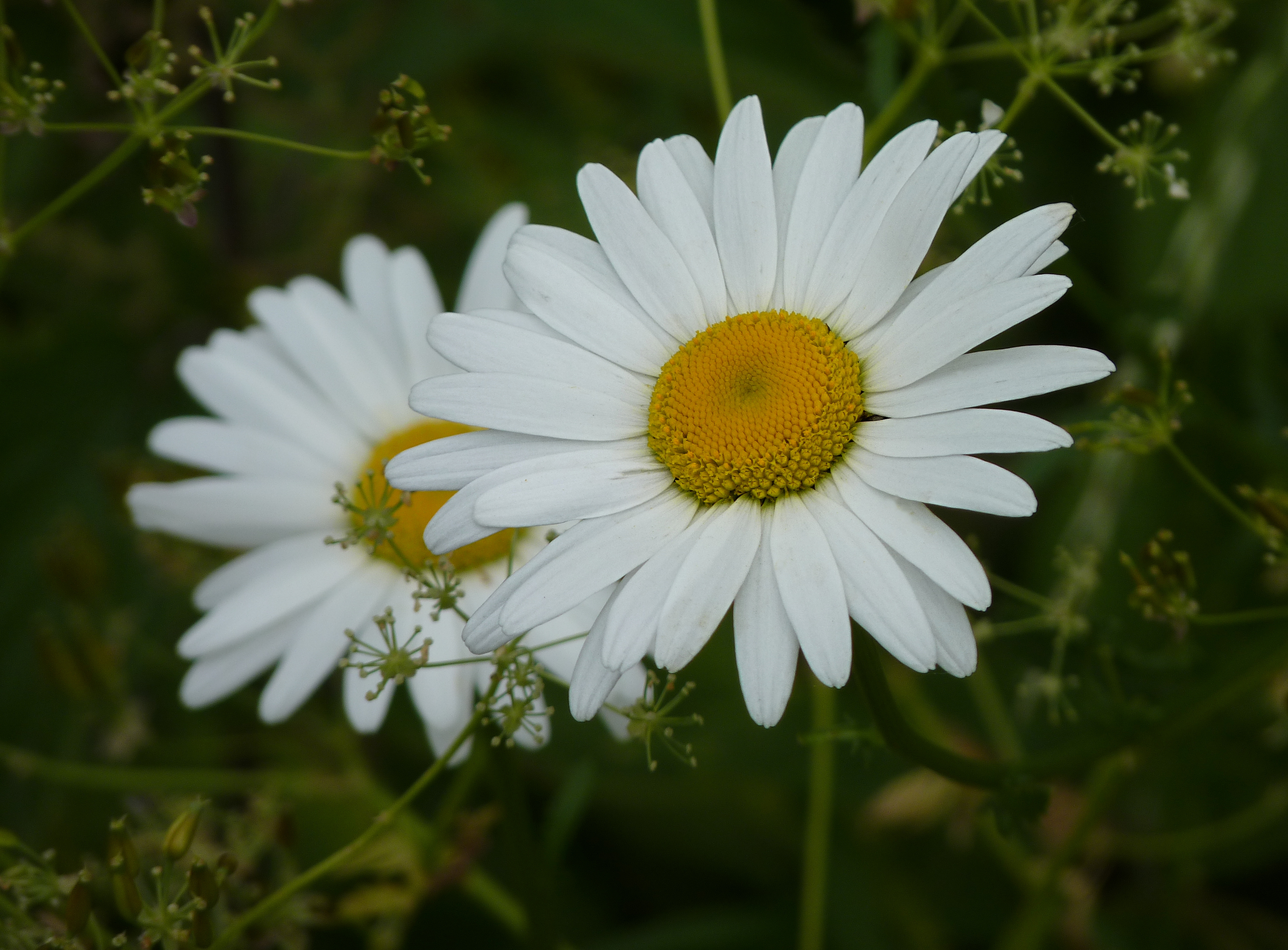 Oxeye daisy flower (Leucanthemum vulgare), picture taken in Belgium.